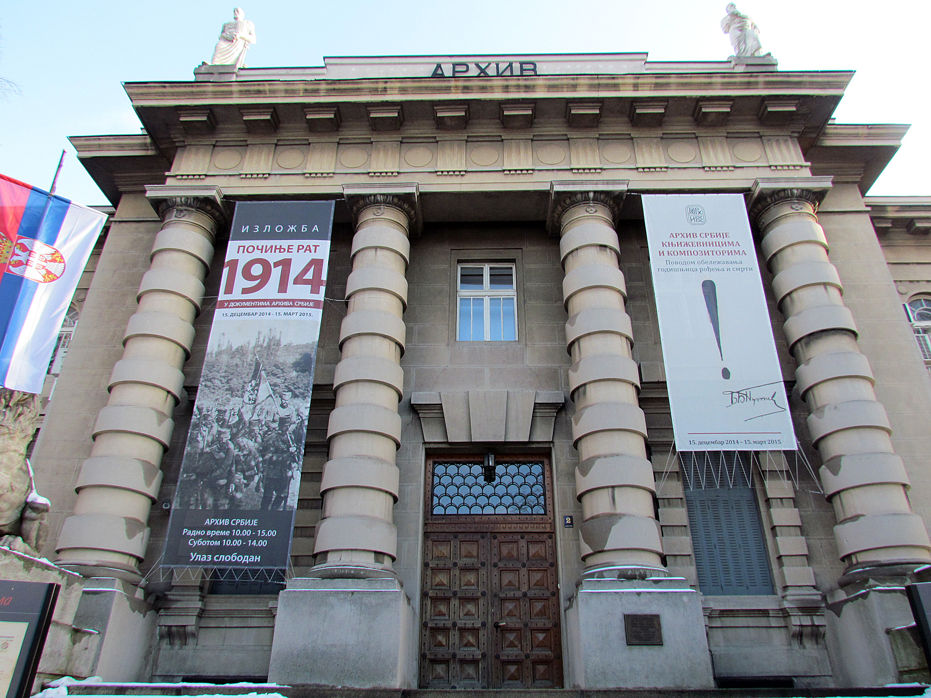 Building of the Serbian Archives in Belgrade